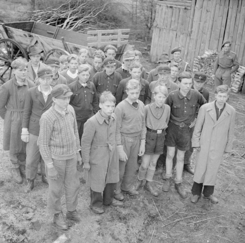 The British Army in North-west Europe 1944-45 A party of Hitler Youth who were spending some time in a training camp at Buxtehude, North Germany when it was over-run by the British and were captured. Eventually they were sent home by the local authorities by arrangement with the British Military Government.